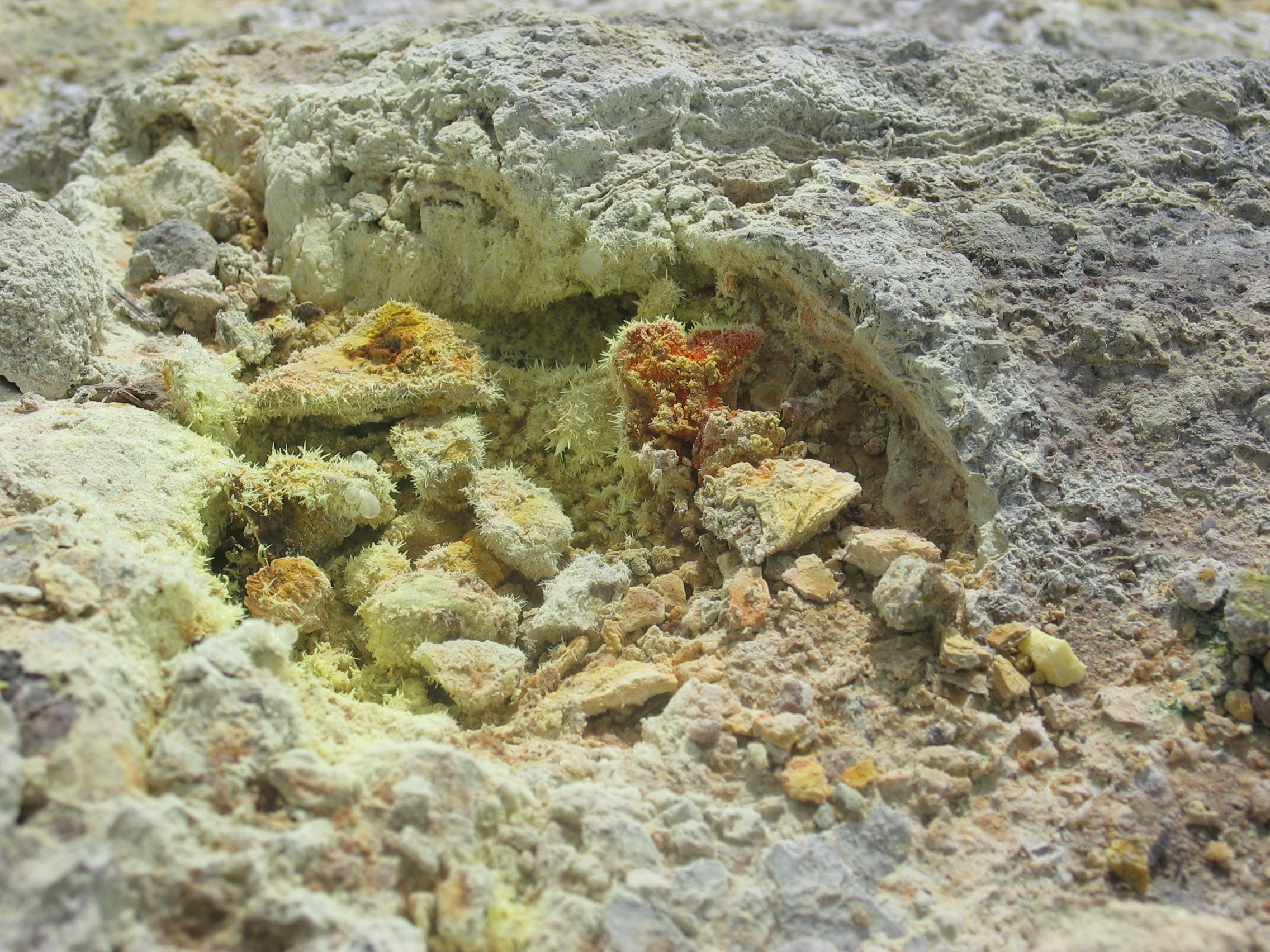 Sulfur crystallites at Wai-o-tapu hot springs, North Island, New Zealand.